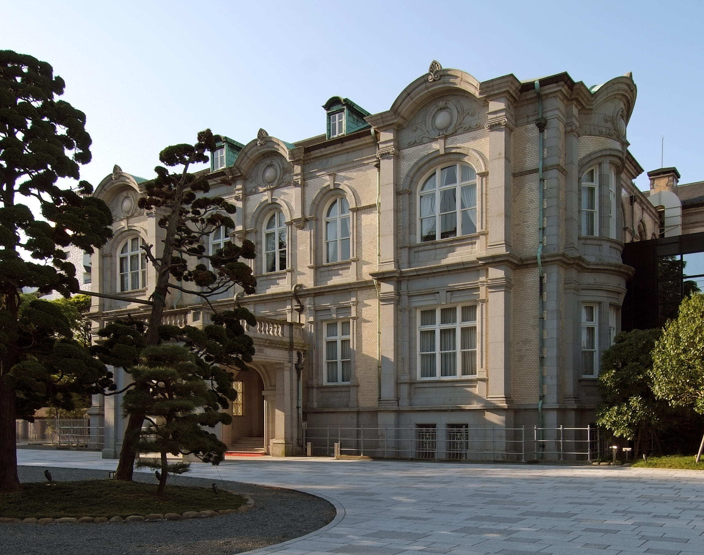 Tsunamachi Mitsui club, Minato-ku Tokyo Japan, designed by Josiah Conder in 1913.